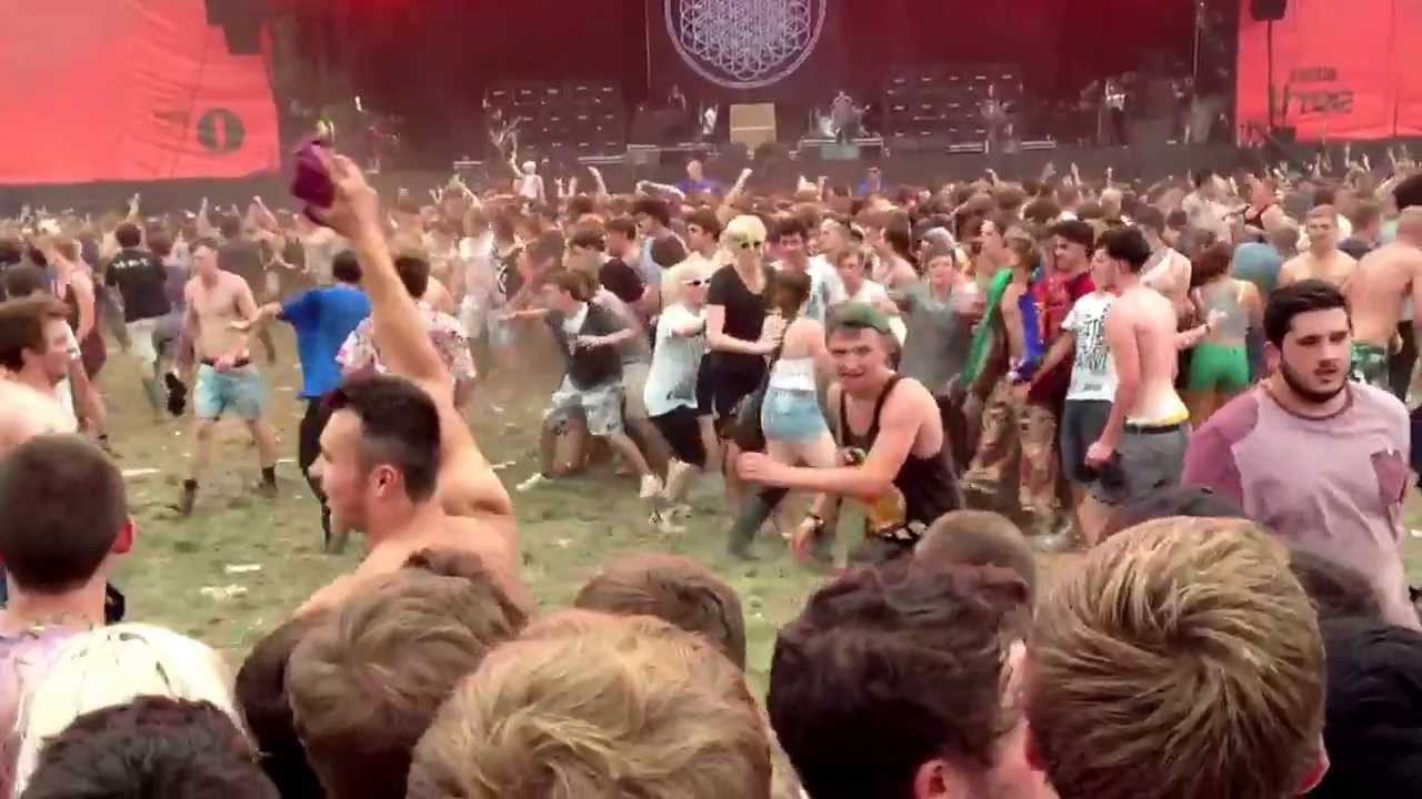 A Mosh